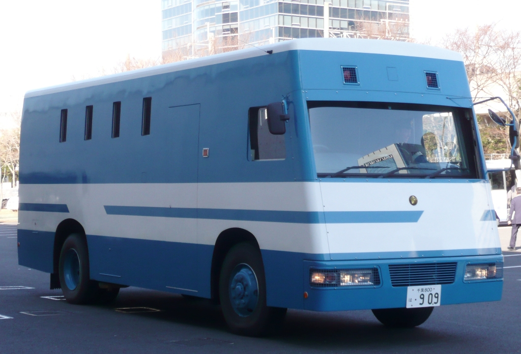 An Armored Police Bus of the Tokyo Metropolitan Police Department. This kind of buses are mainly used as mobile barriers and shelters for police units.